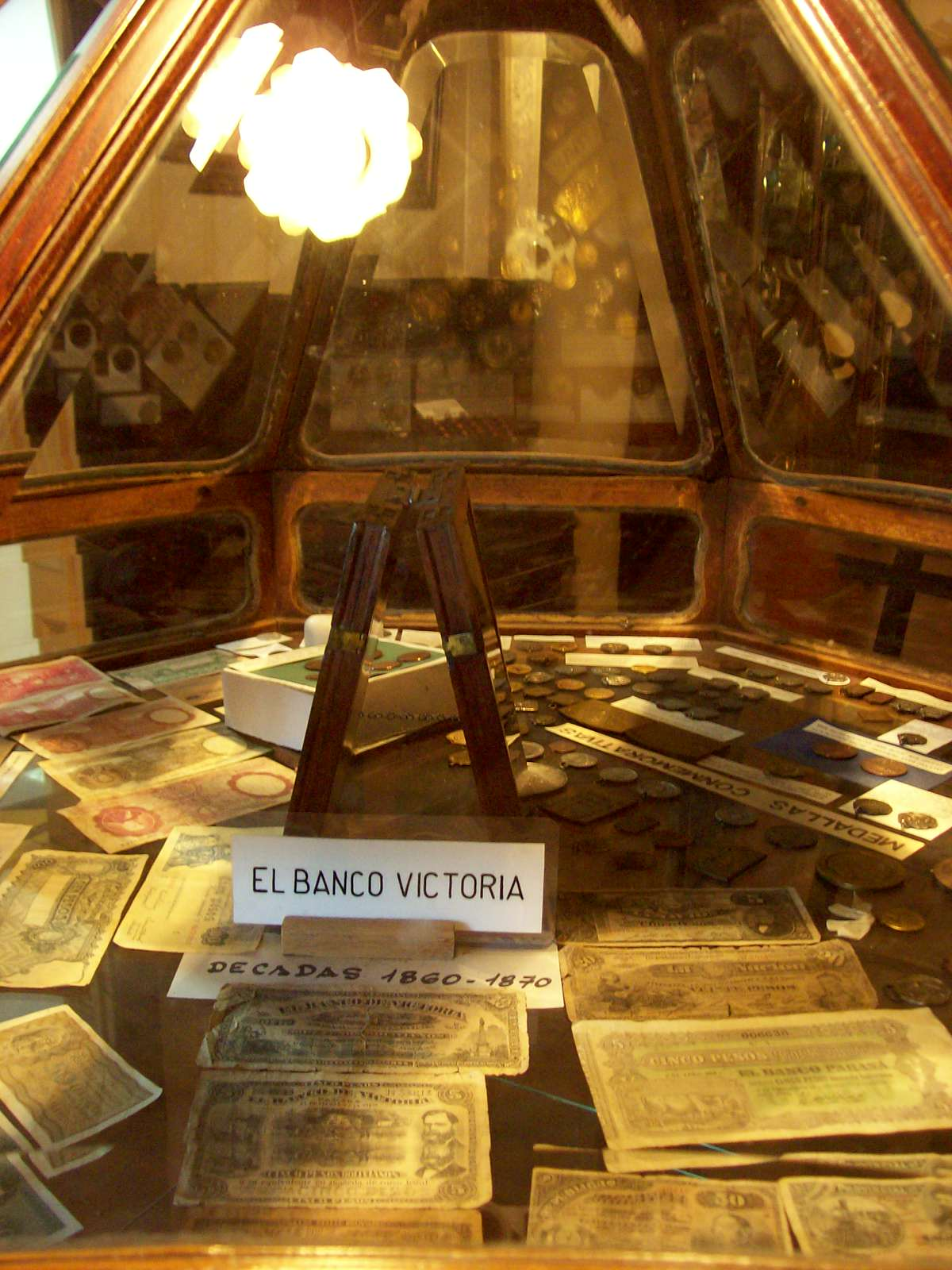 Old currency in display at the Museum "Carlos Anadón" in Victoria, Entre Ríos, Argentina.